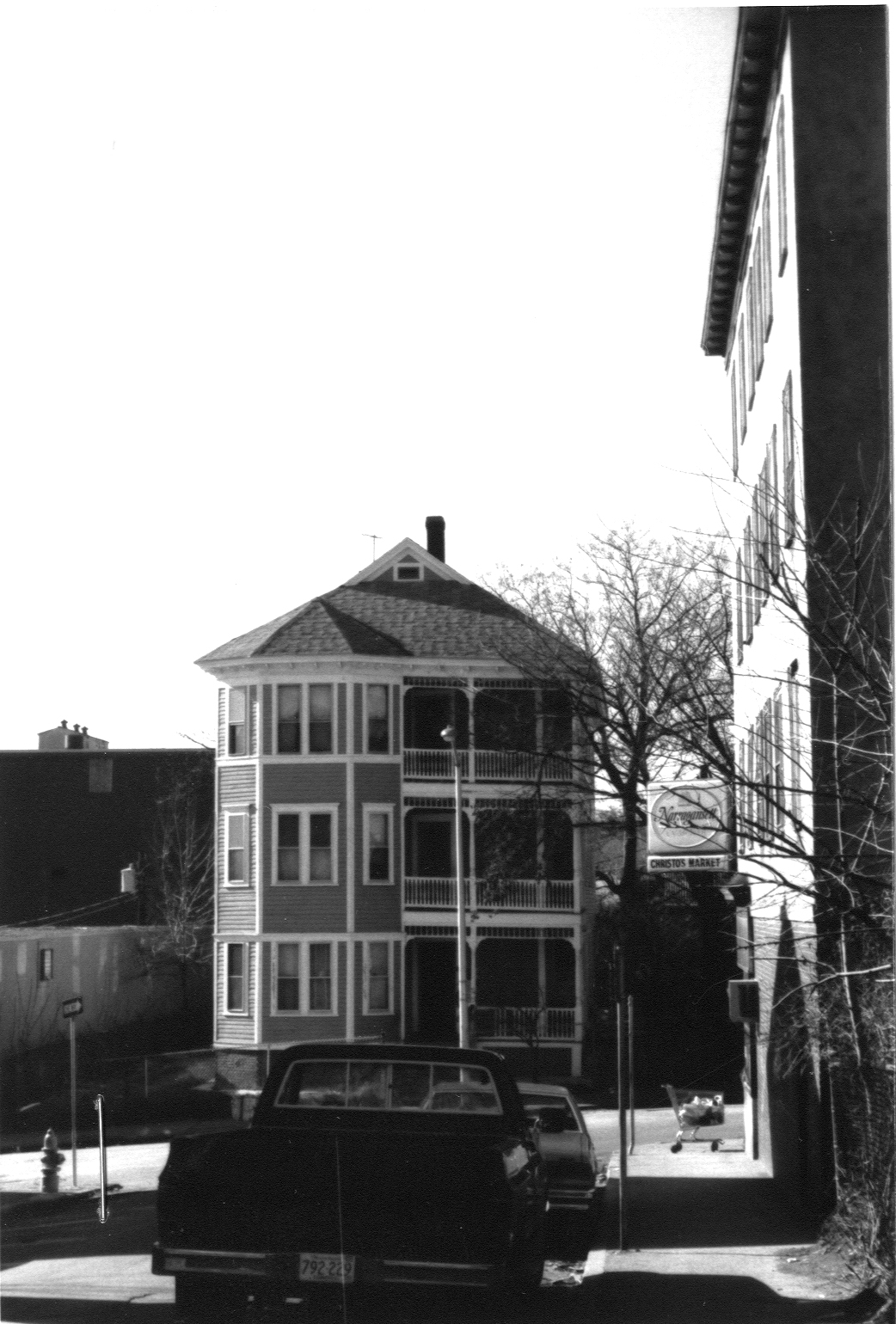 Ellen M. Smith Three-Decker, Worcester, Massachusetts. This house has been demolished.